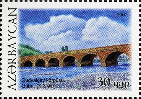 806 - 30 gapik. On the stamp is pictured “Gudialchai bridge” in Guba